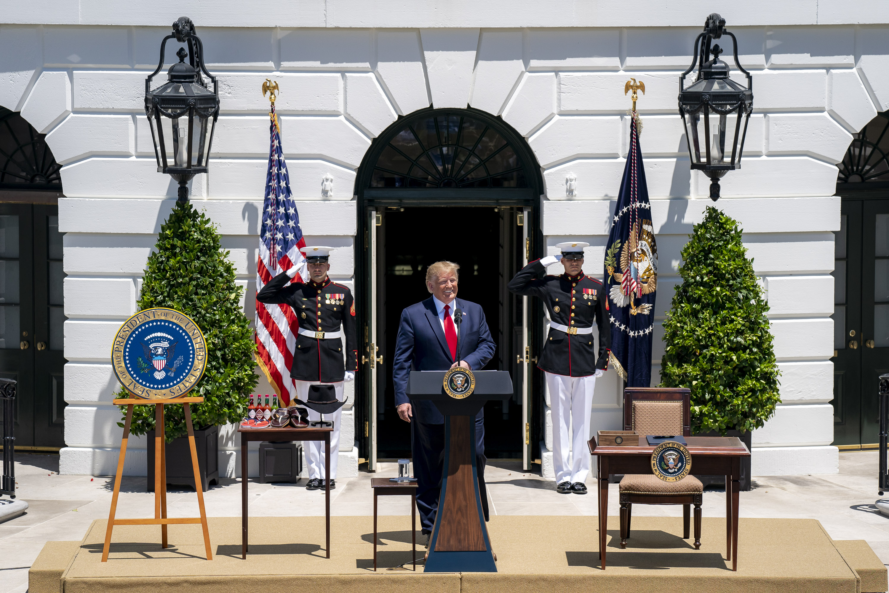 President Donald J. Trump delivers his remarks on the South Lawn of the White House, Monday, July 15, 2019, at the Made in America Product Showcase. (Official White House Photo by Tia Dufour)